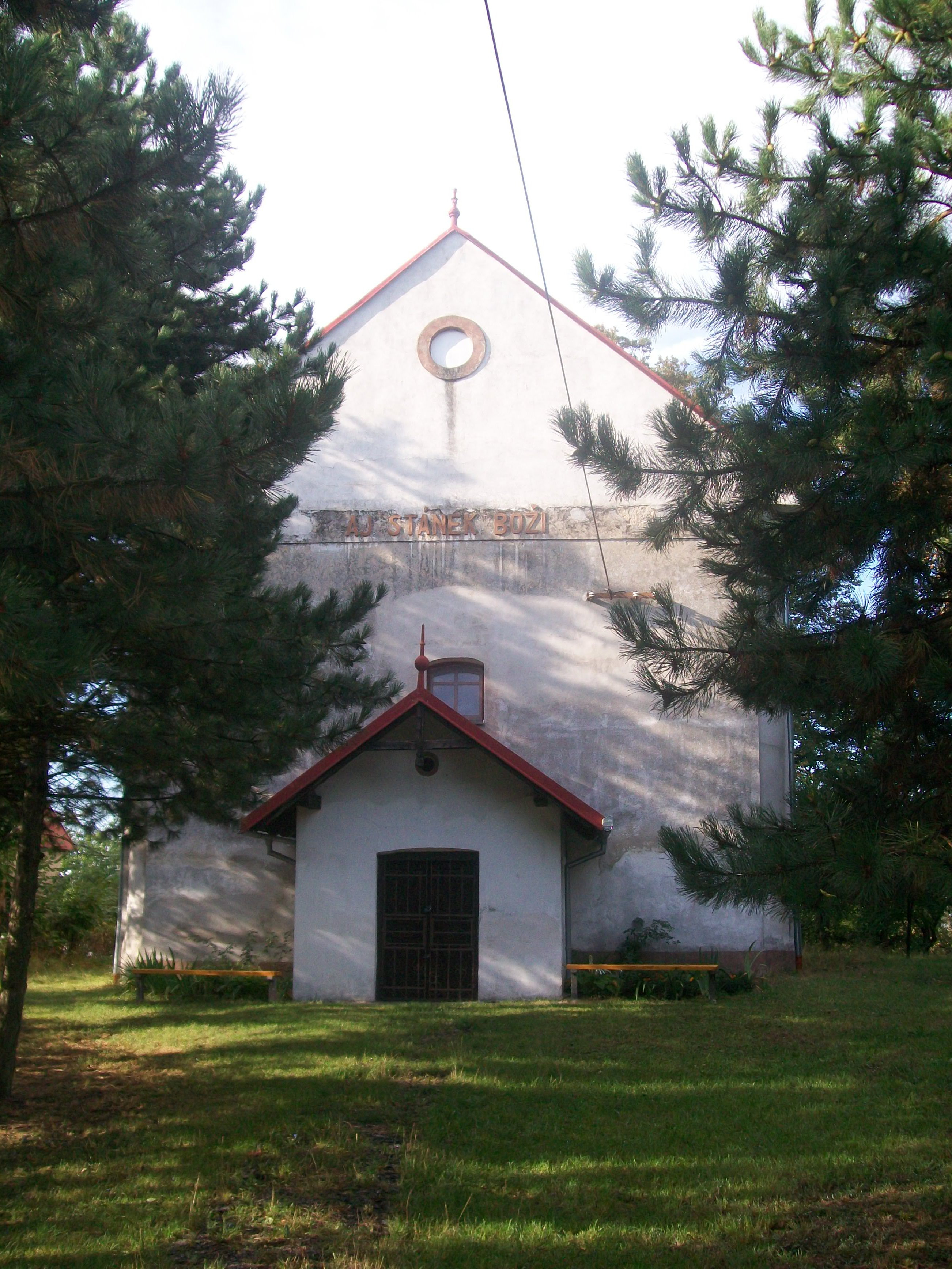 Lutheran Church in Vyšná Pokoradz (Rimavská Sobota)